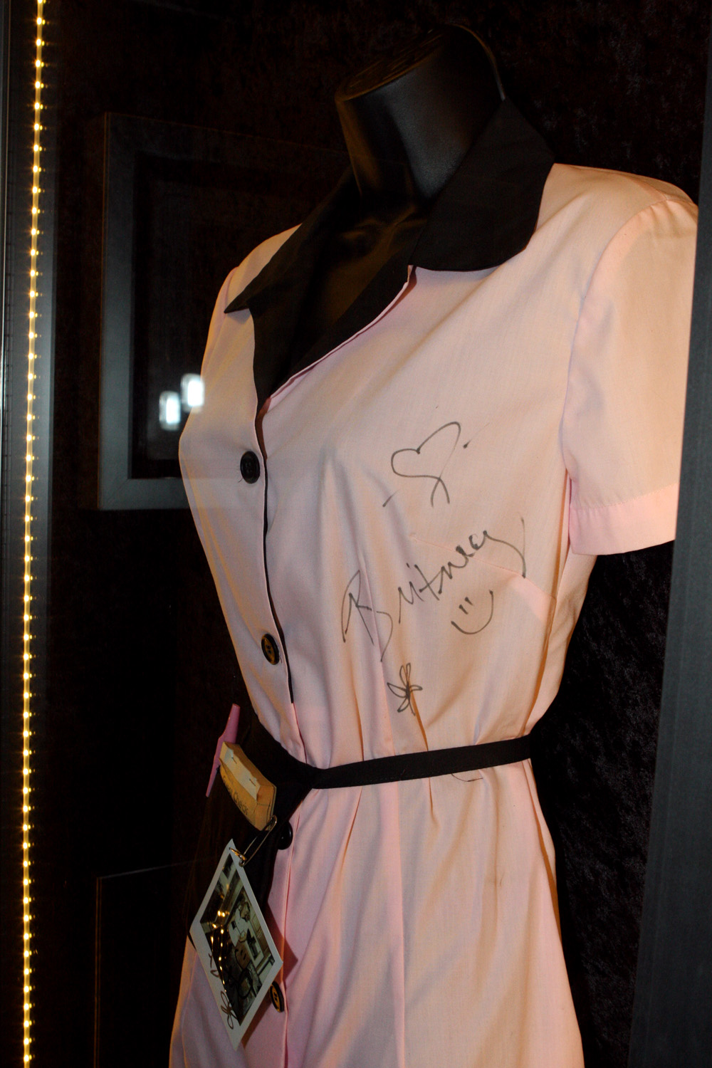 The pink waitress uniform worn by Britney Spears in her (You Drive Me) Crazy music video on display at the Sydney Hard Rock Cafe.